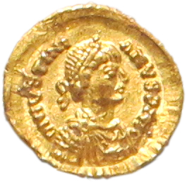 Justinian I, ostrogothic issue, Palazzo Massimo alle Terme